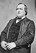 James Carroll Robinson, US Representative from Illinois